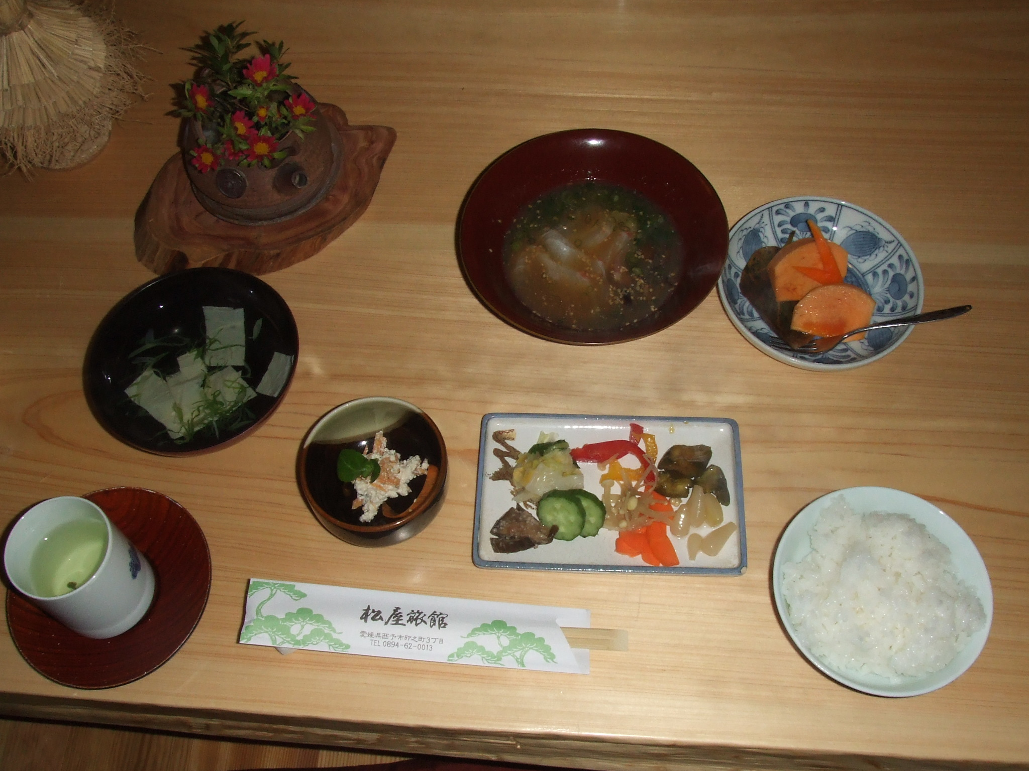 Hyuga-meshi(rice)